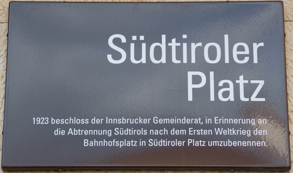 Südtiroler Platz in Innsbruck, commemorating the separation of the County of Tyrol after World War I